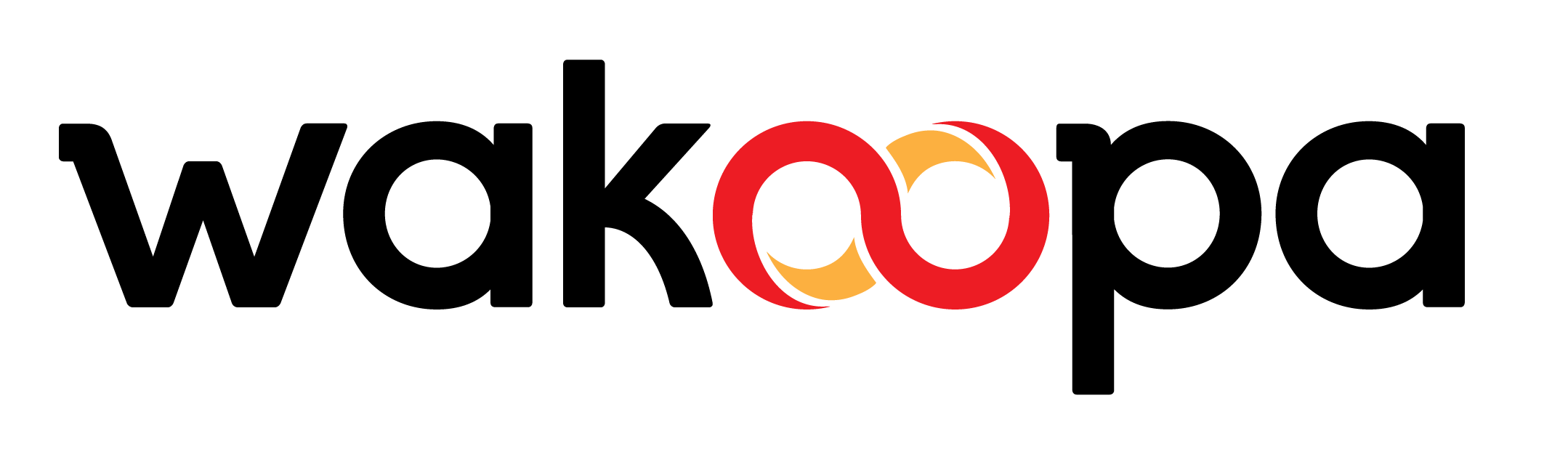 Wakoopa company logo